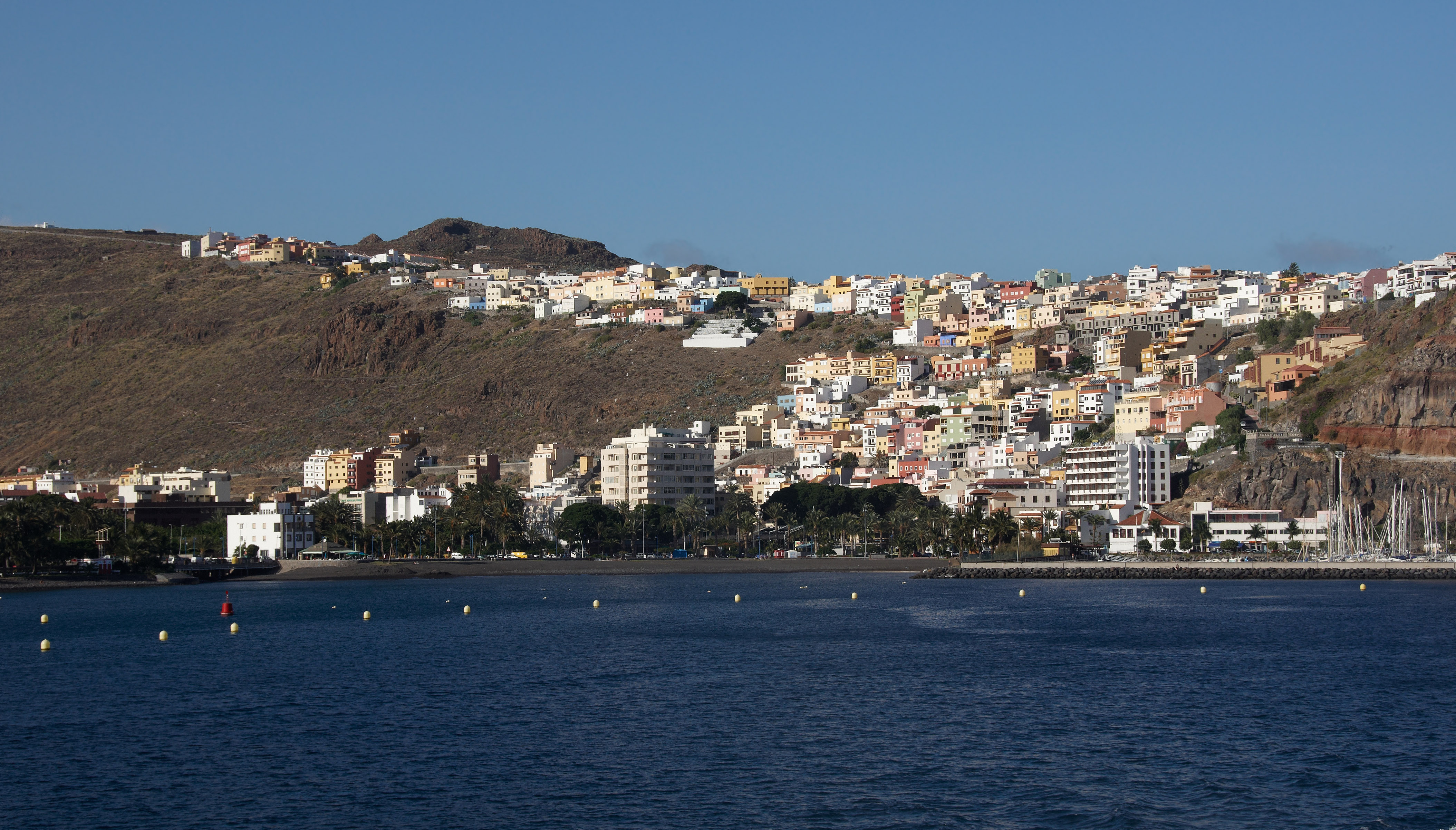 View on San Sebastián de La Gomera